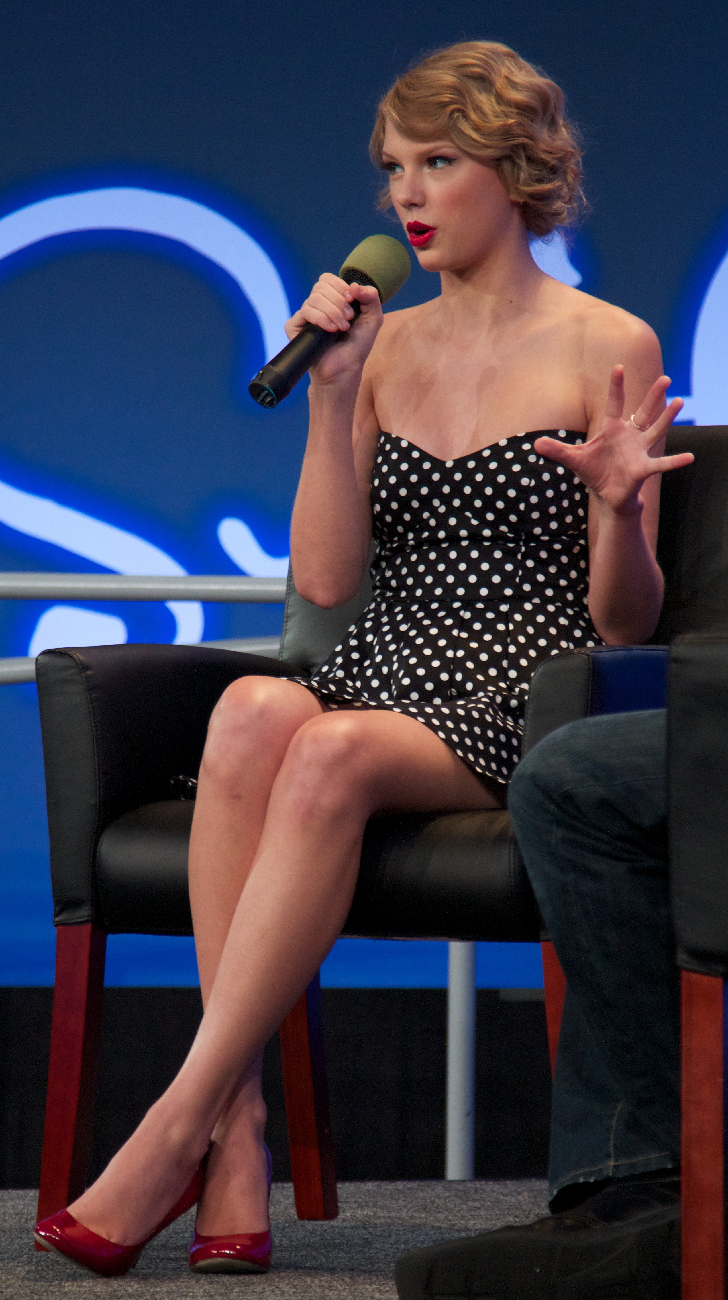 YouTube Presents Taylor Swift.